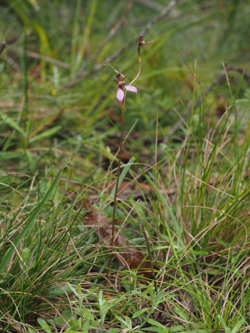 Eriochilus magenteus growing near Paddys River in the Australian Capital Territory